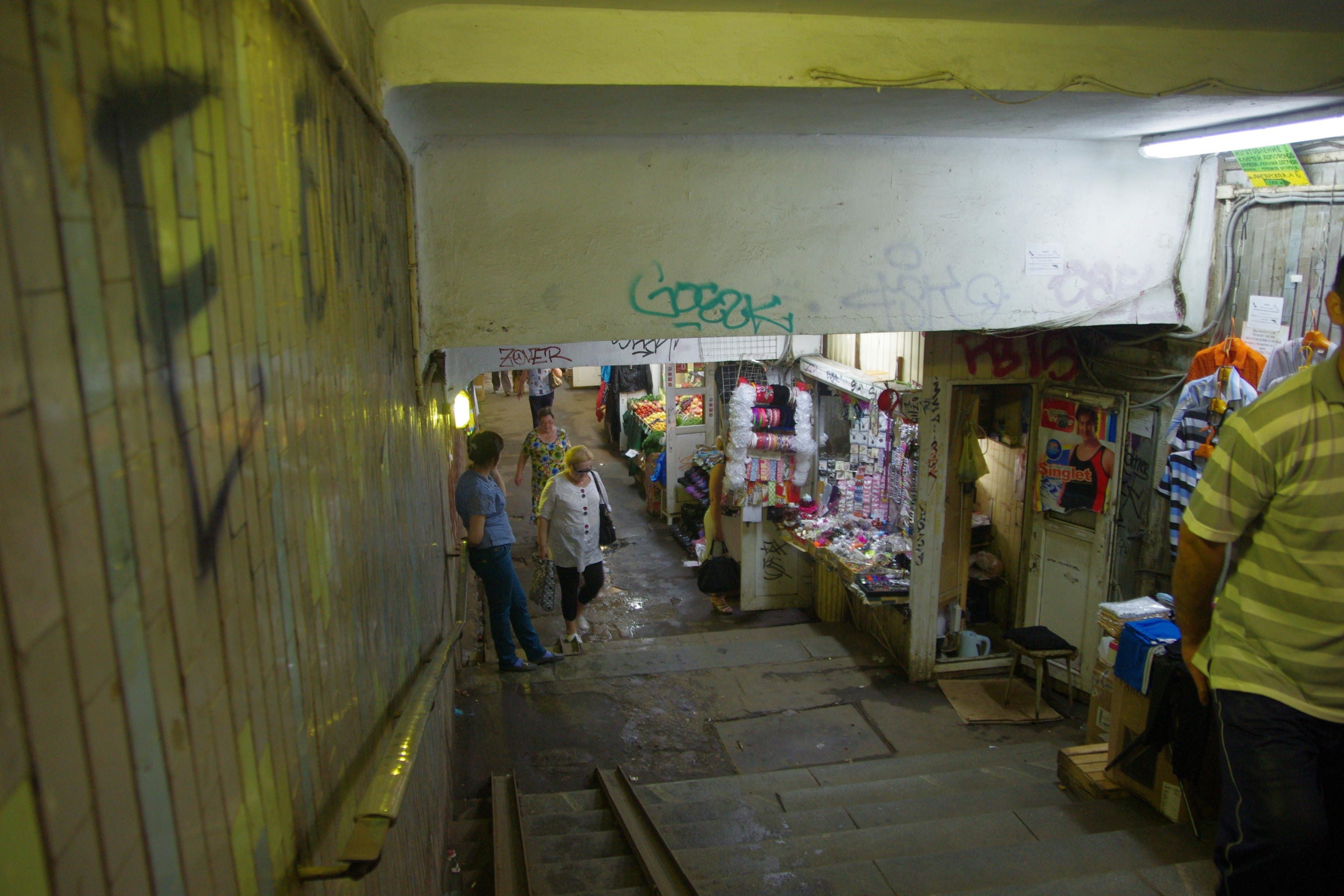 Khovrino District, Moscow, Russia